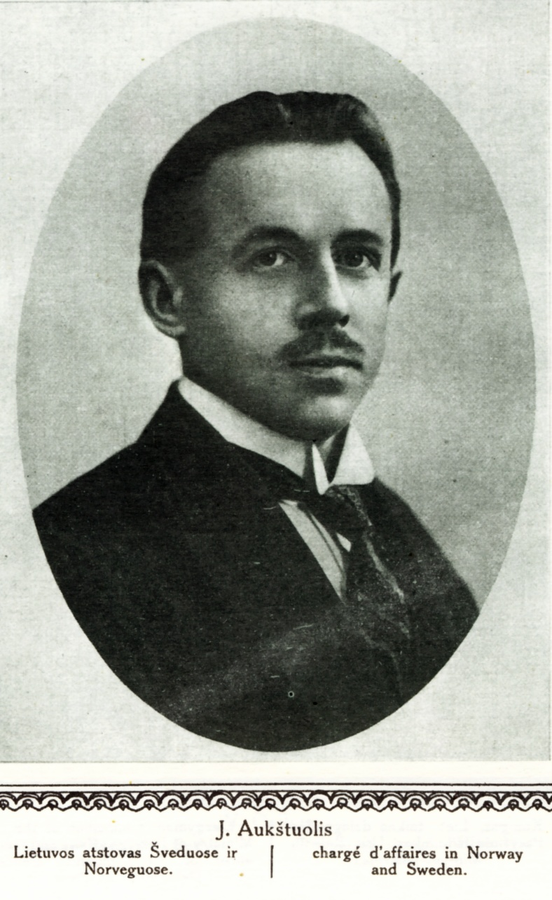 Jonas Aukštuolis, diplomat, lawyer of LithuaniaLietuvių: Jonas Aukštuolis, Lietuvos diplomatas, teisininkas